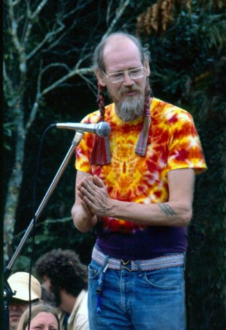 Image (photograph) taken by Official Nambassa Photographer at the 1981 Nambassa 5 day alternatives festival in New Zealand and uploaded by User:Mombas, Nambassa dot com